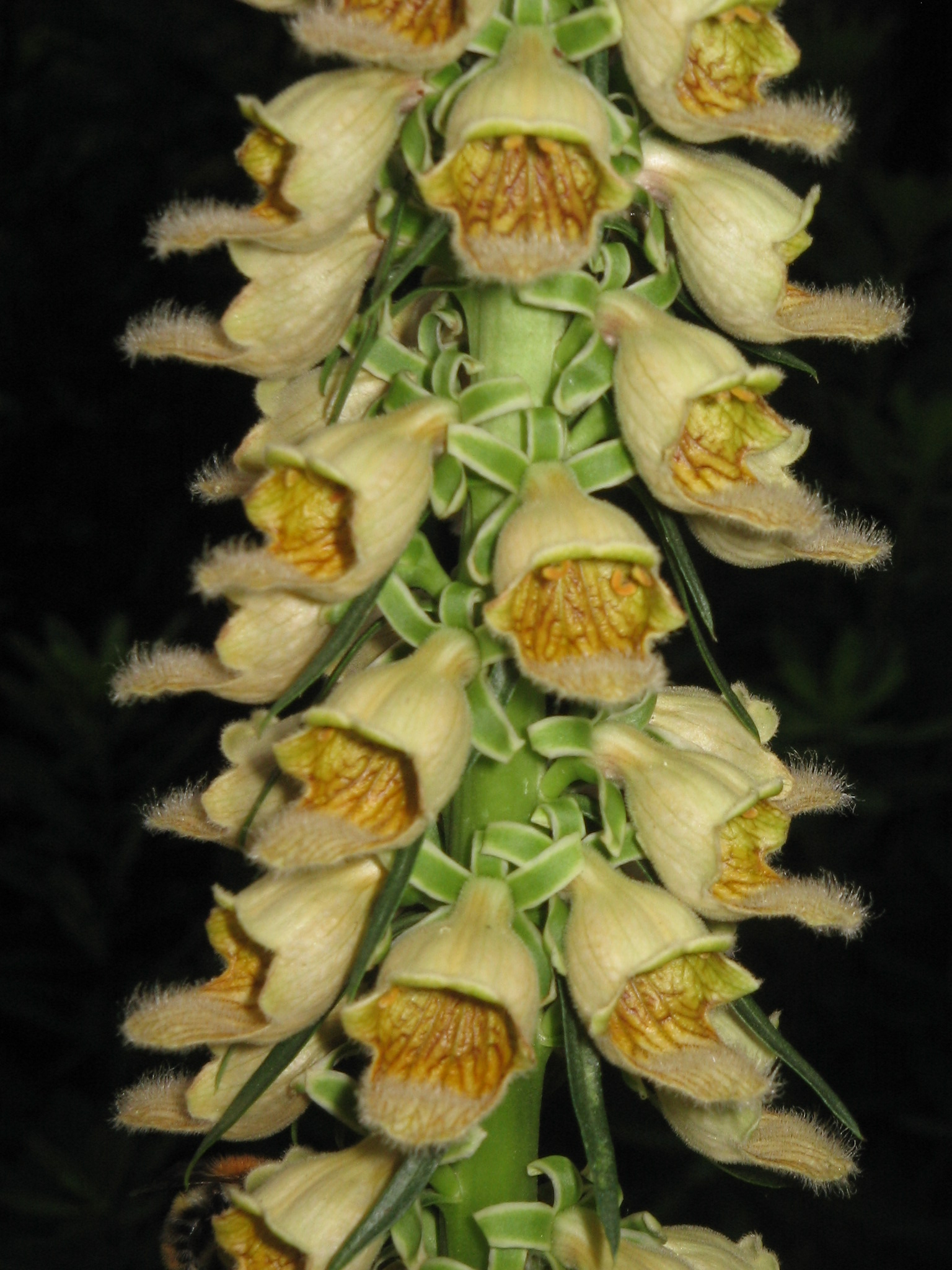 gitalis ferruginea close-up